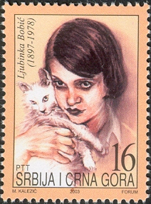 Famous Serbian Actors - Ljubinka Bobic (1897-1978)